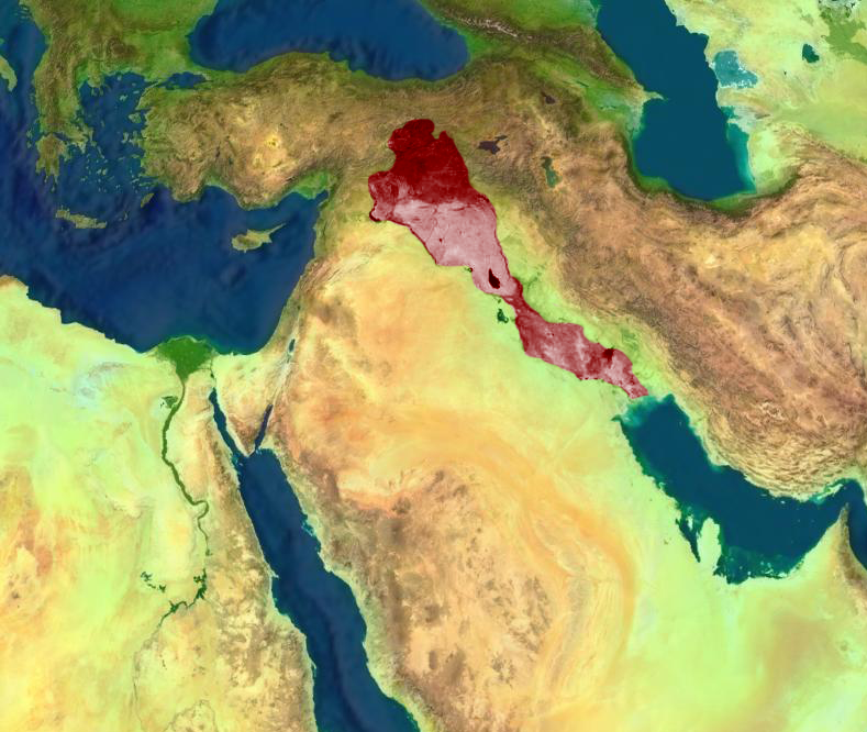 Geografic map of mesopotamia